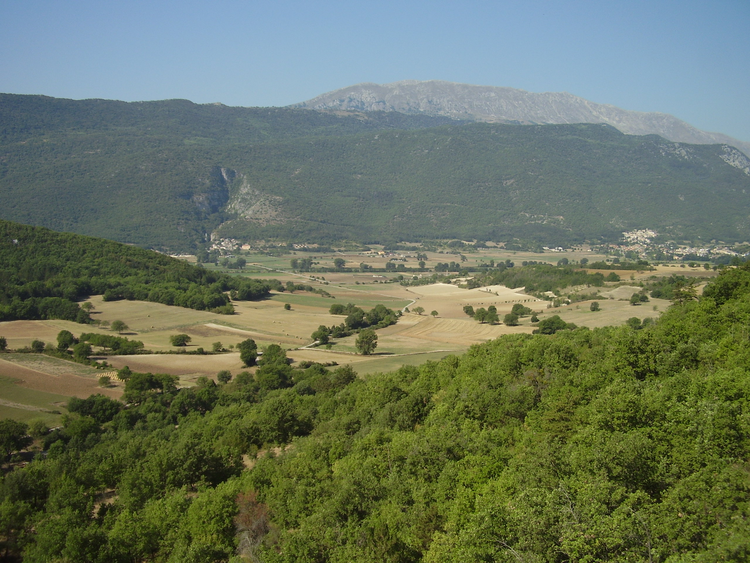 A view from San Rocco church in Ripa Fagnano